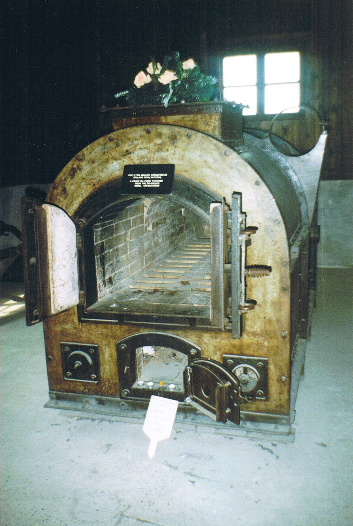 Crematorium in concentration camp Majdanek